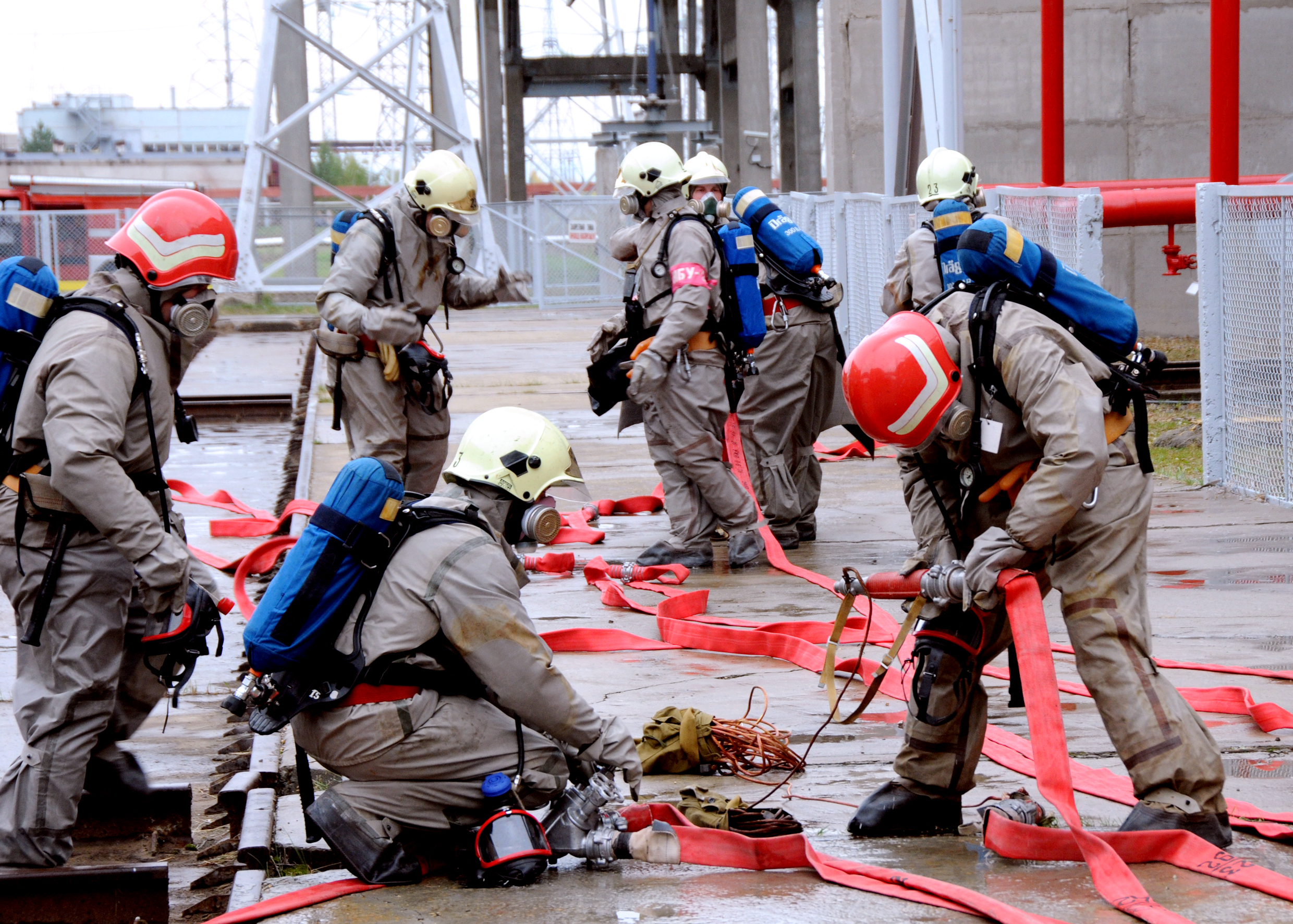 Maneuvers on Balakovo NPP